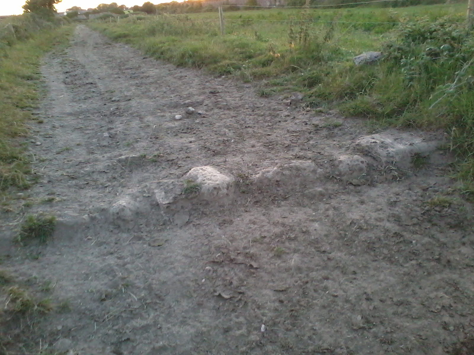 Geneva Barracks, County Waterford, Ireland